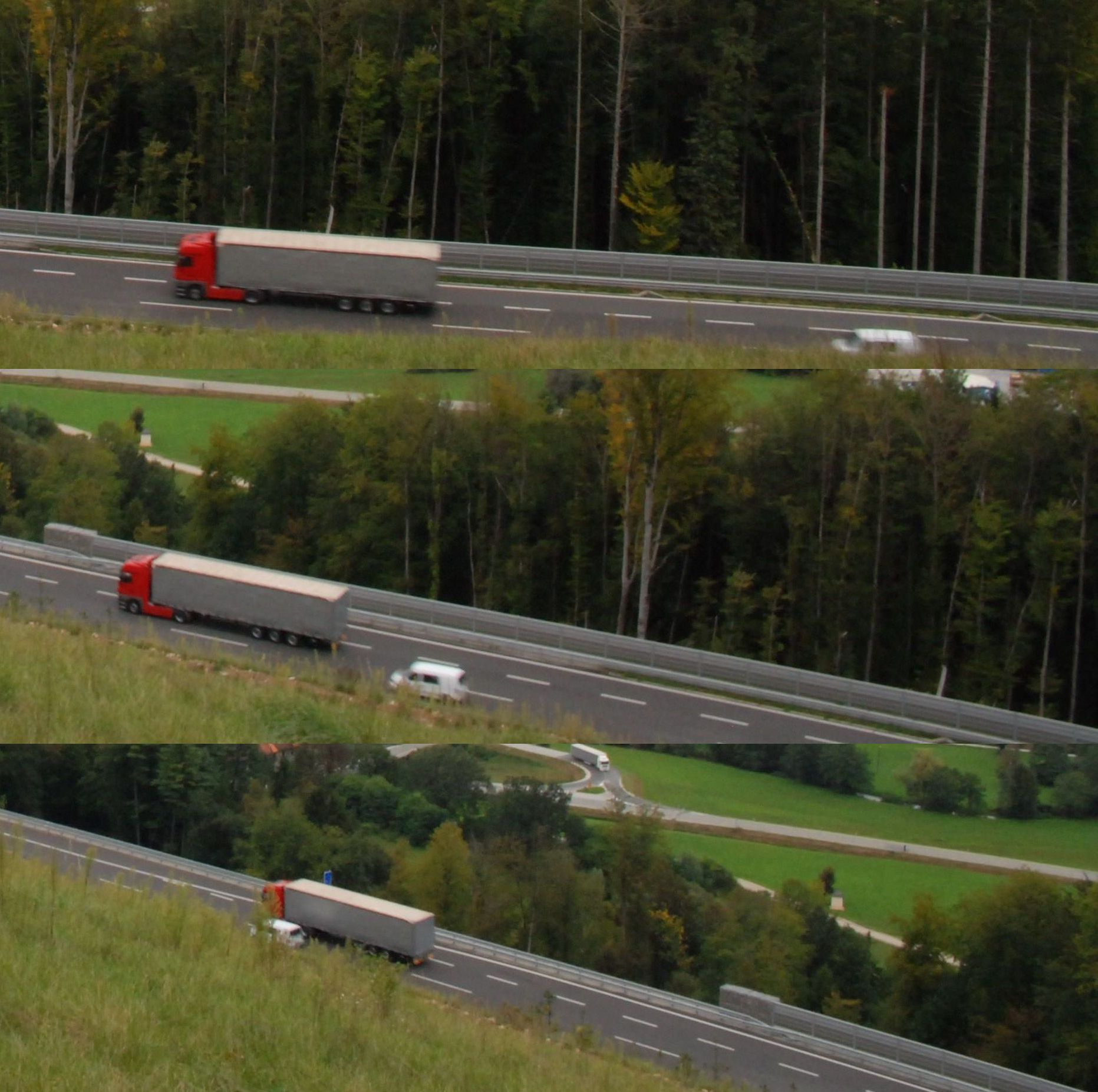 Overtaking.